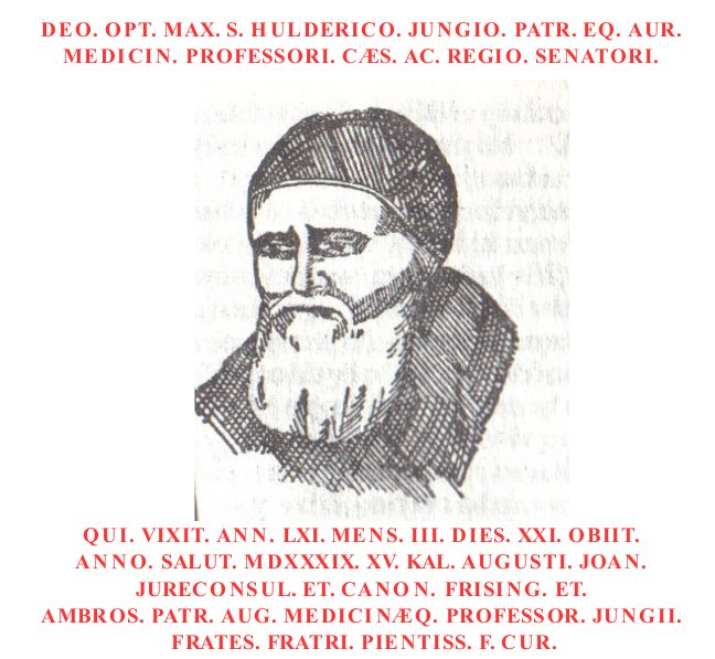 Ulrich Jung (1478 Ulm – 1539 Augsburg) was a German doctor & professor